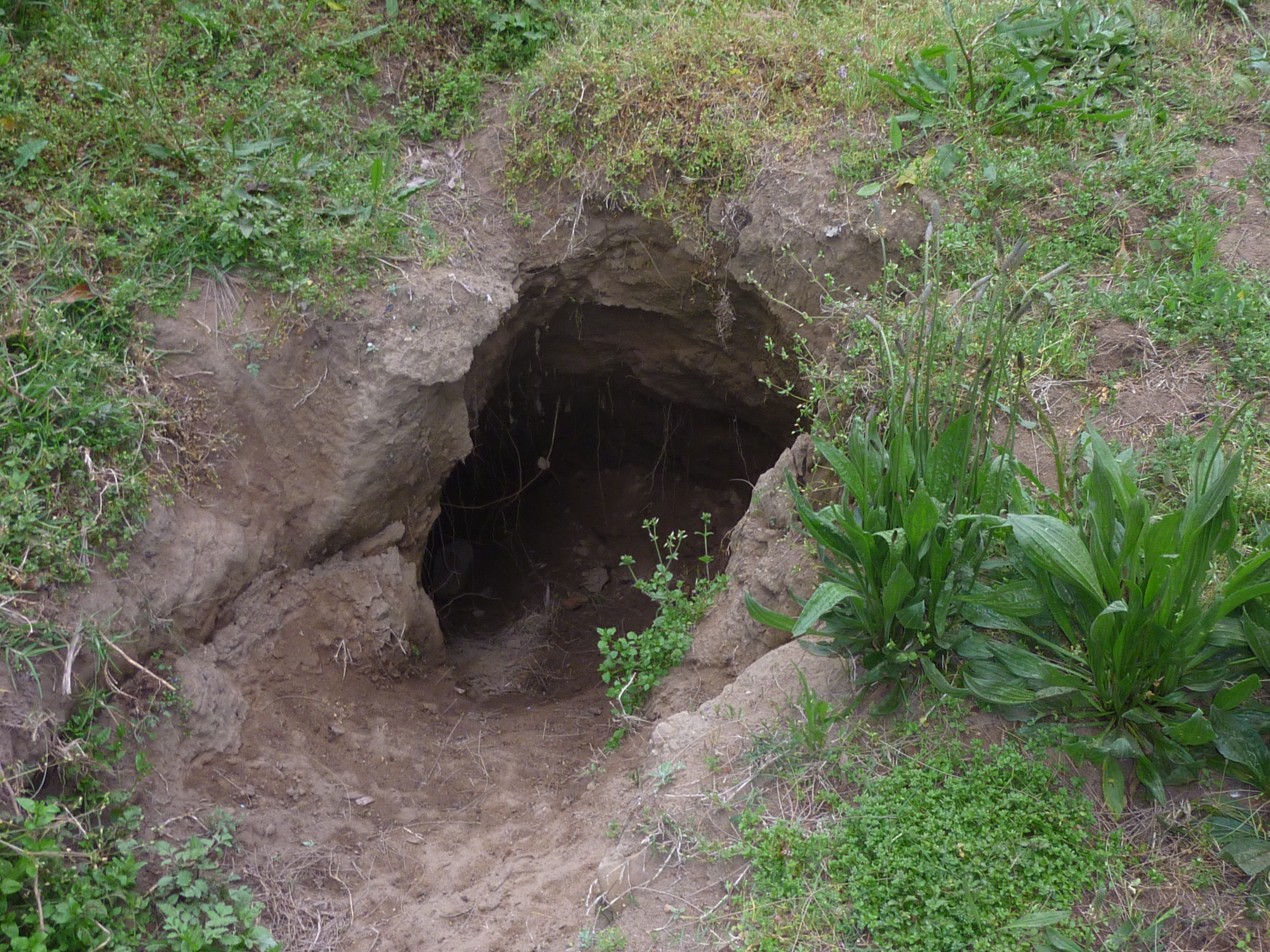 wombat burrow at kangaroo valley, NSW, Australia